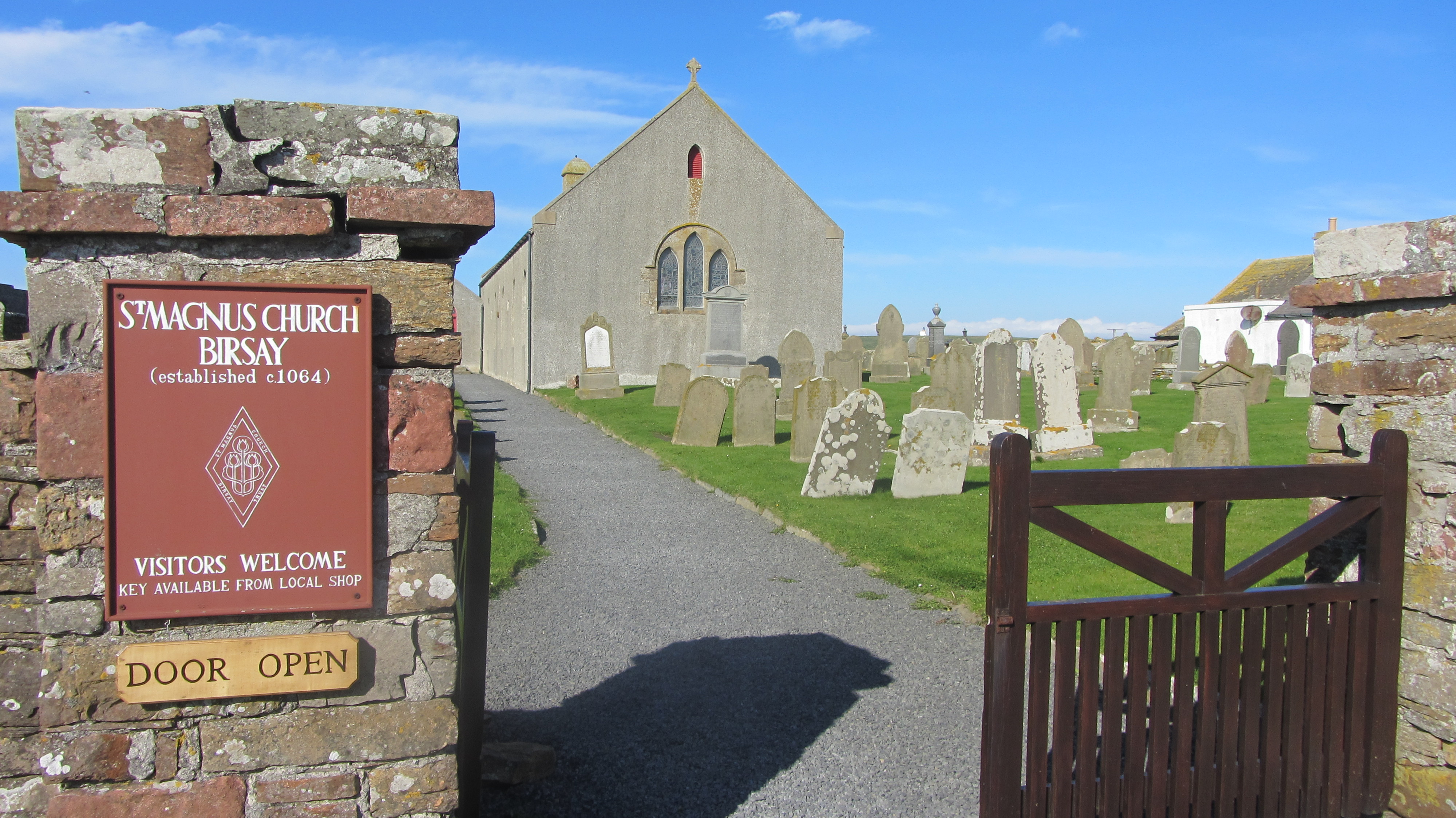 St. Magnus Church, Birsay, Orkney Islands, Scotland